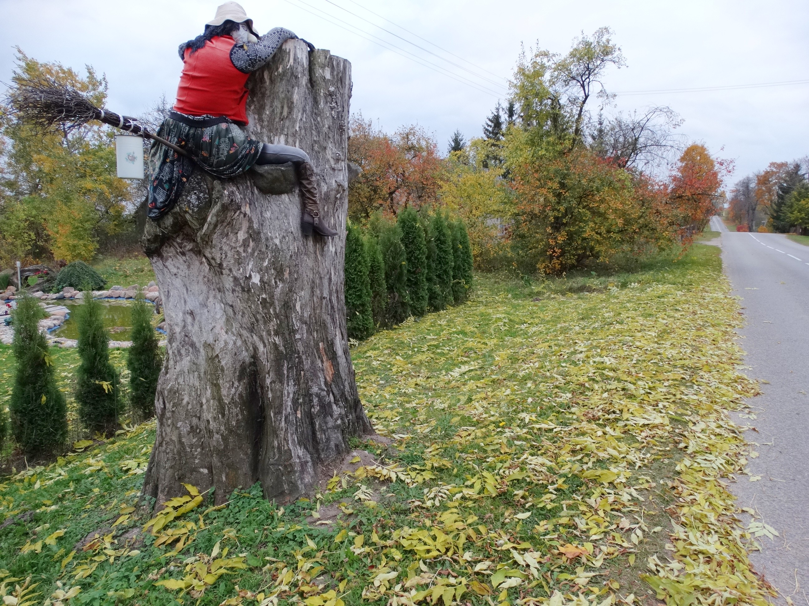 Raudeniškiai, Kalvarija municipality, Lithuania